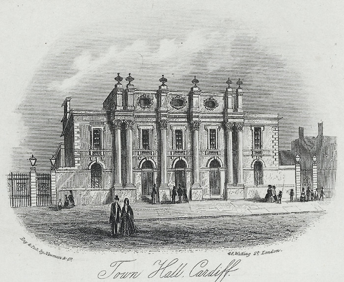 A view of the town hall at Cardiff with many figures in the foreground dressed in smart costumes.